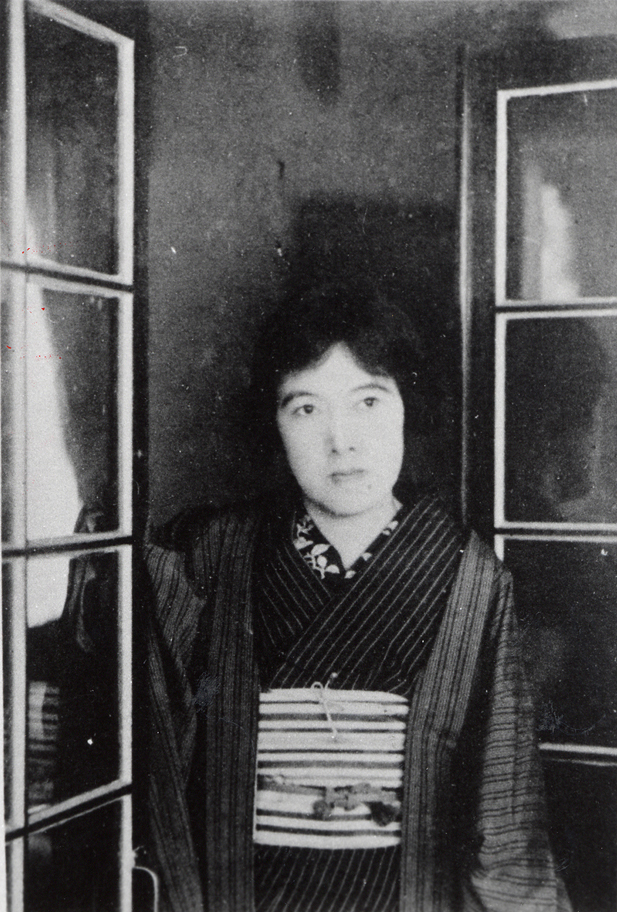 Japanese poet/writer Akiko Yosano (与謝野晶子, 1878–1942)